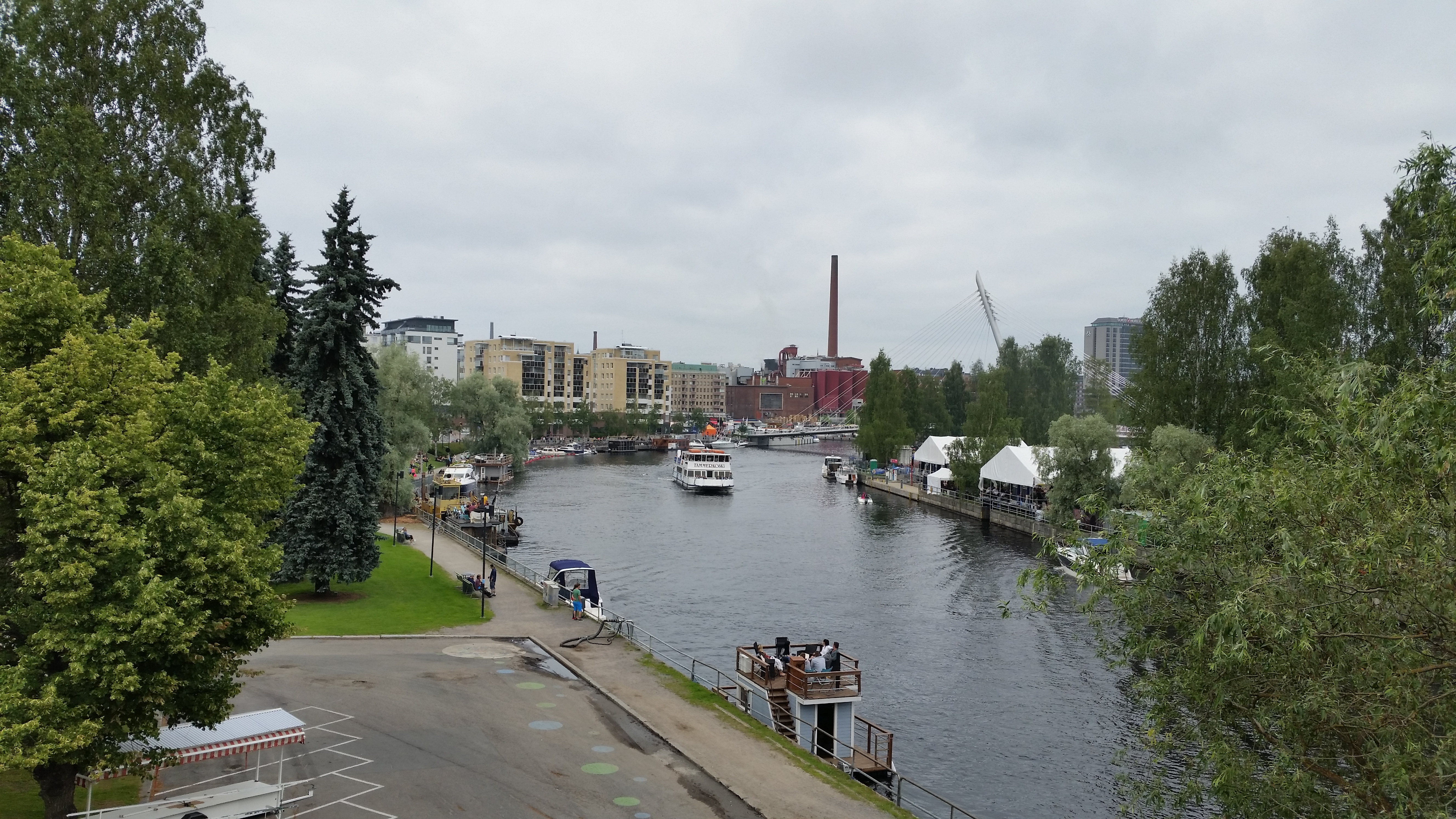 View from Ratina bridge to Ratina bay.